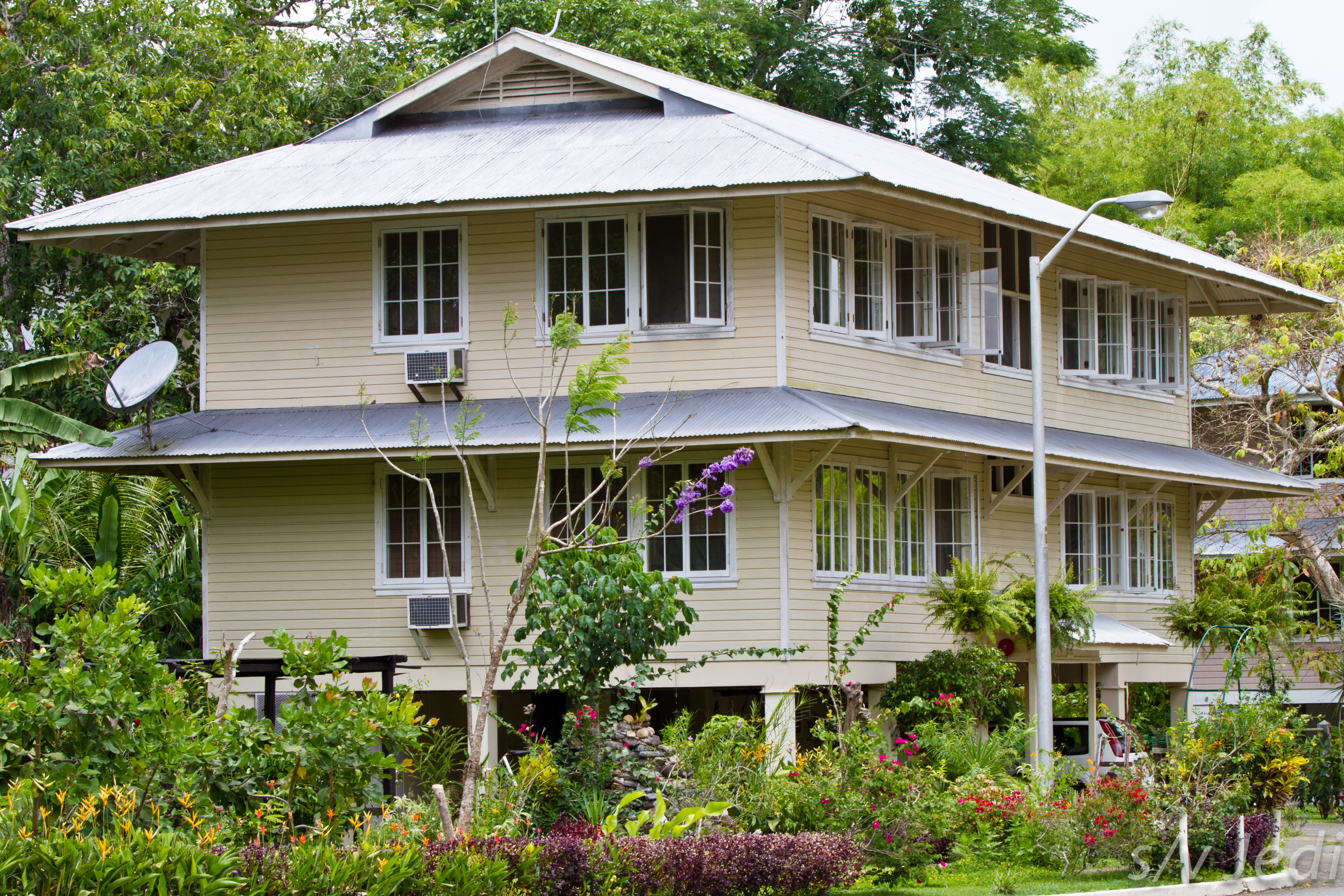 A typical Panama Canal Zone house in Gamboa.